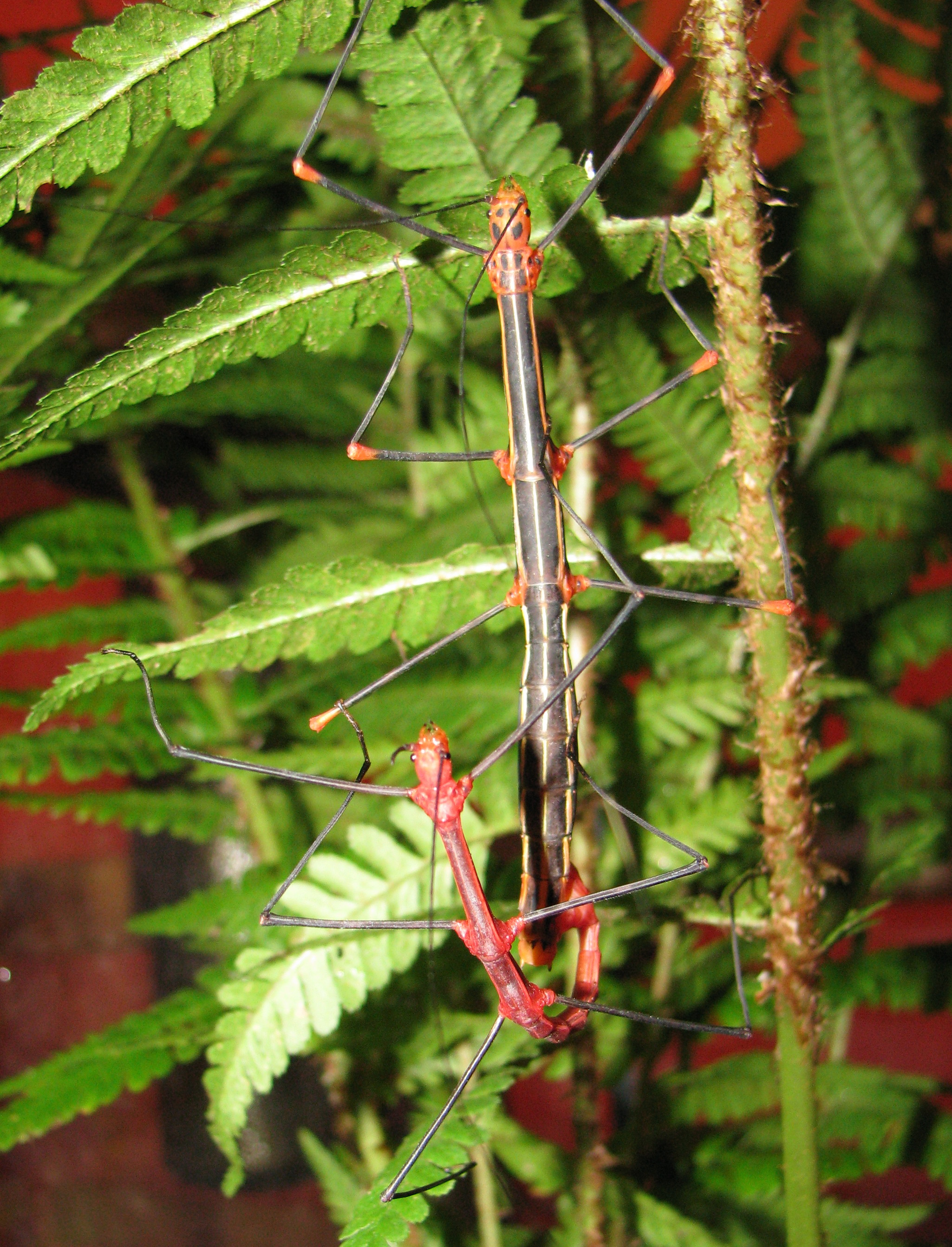 pair of Oreophoetes peruana during copulation